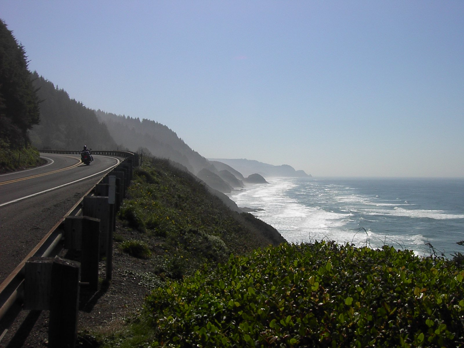 U.S. Route 101 on the coast of Oregon, north of Florence